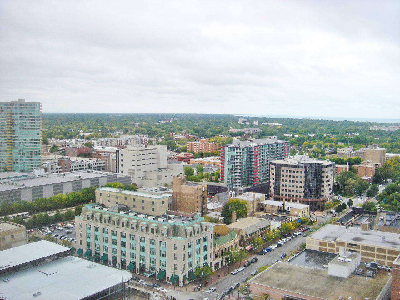 Skyline of Evanston, taken by me on Oct. 7, 2005 from one of the top floors of Bank One Building (Chase Building) on Orrington Avenue.